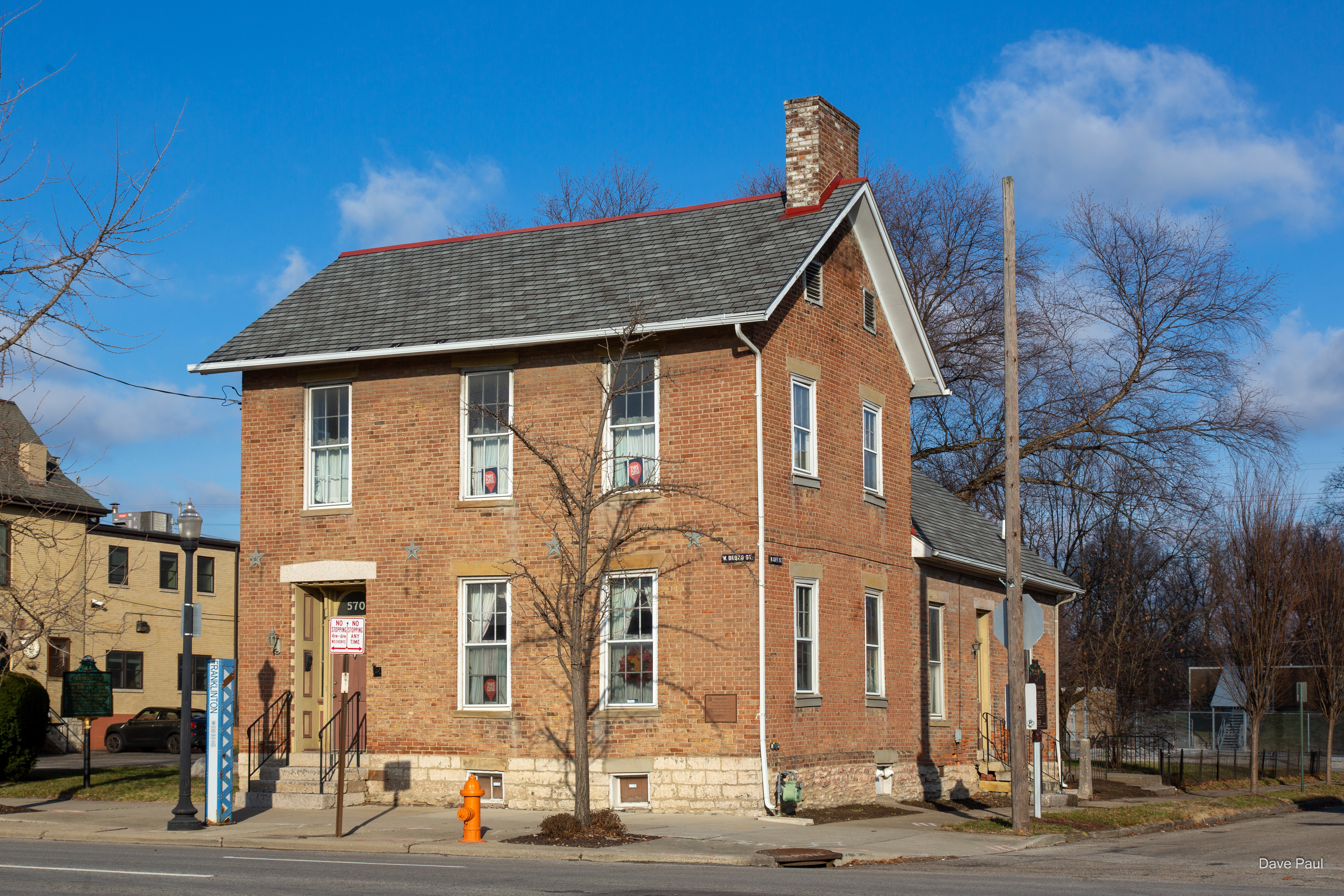 Harrison House in Franklinton, Columbus, Ohio.